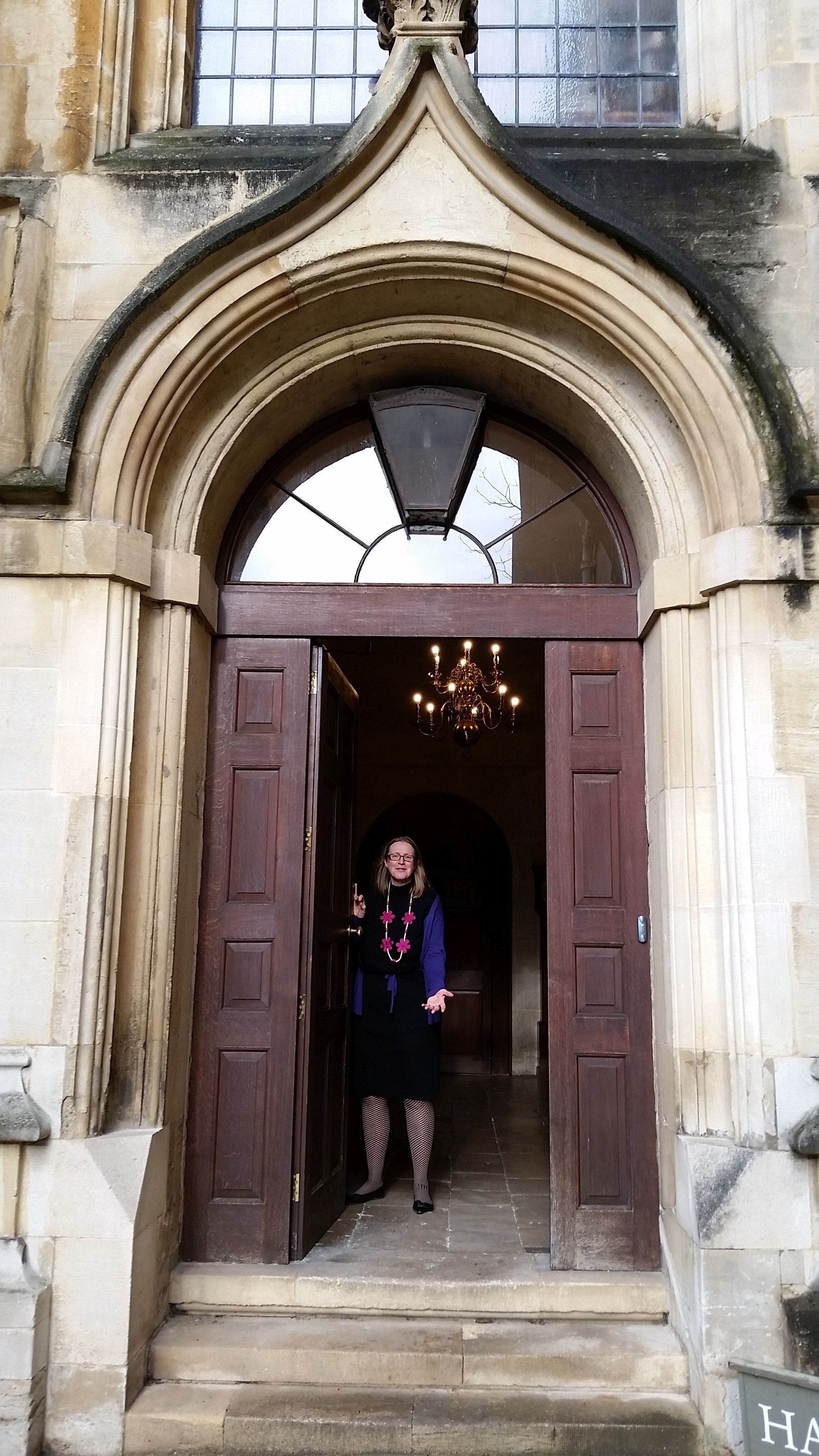 Catriona Seth at All Souls